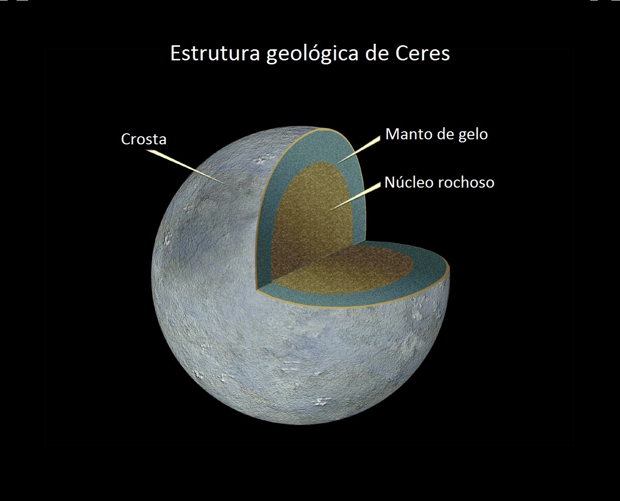 Cutaway view of asteroid 1 Ceres. Observations of 1 Ceres, the largest known asteroid, have revealed that the object may be a "mini planet," and may contain large amounts of pure water ice beneath its surface. The observations by NASA's Hubble Space Telescope also show that Ceres shares characteristics of the rocky, terrestrial planets like Earth. Ceres' shape is almost round like Earth's, suggesting that the asteroid may have a "differentiated interior," with a rocky inner core and a thin, dusty outer crust.